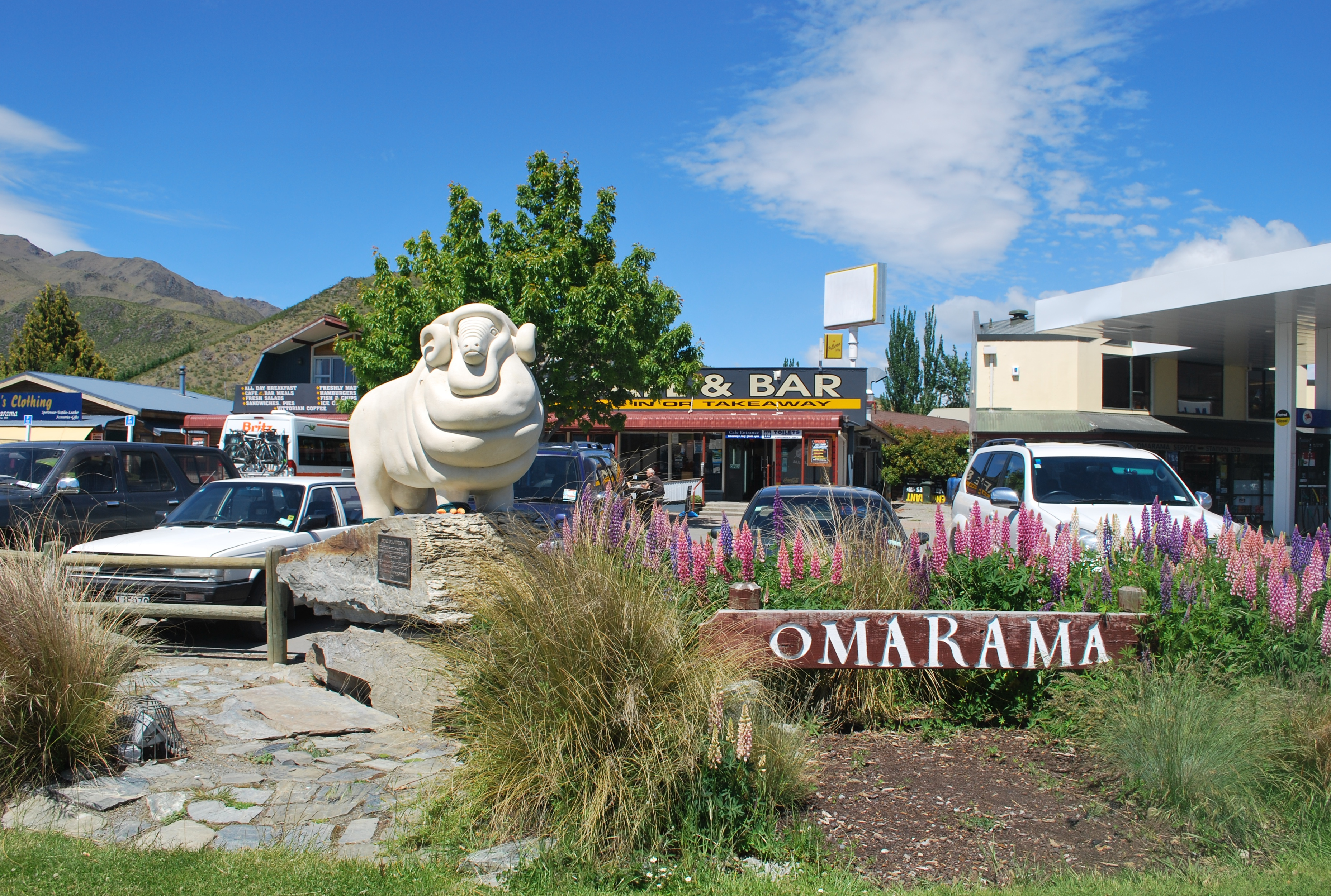 A statue of a merino ram at Omarama, New Zealand